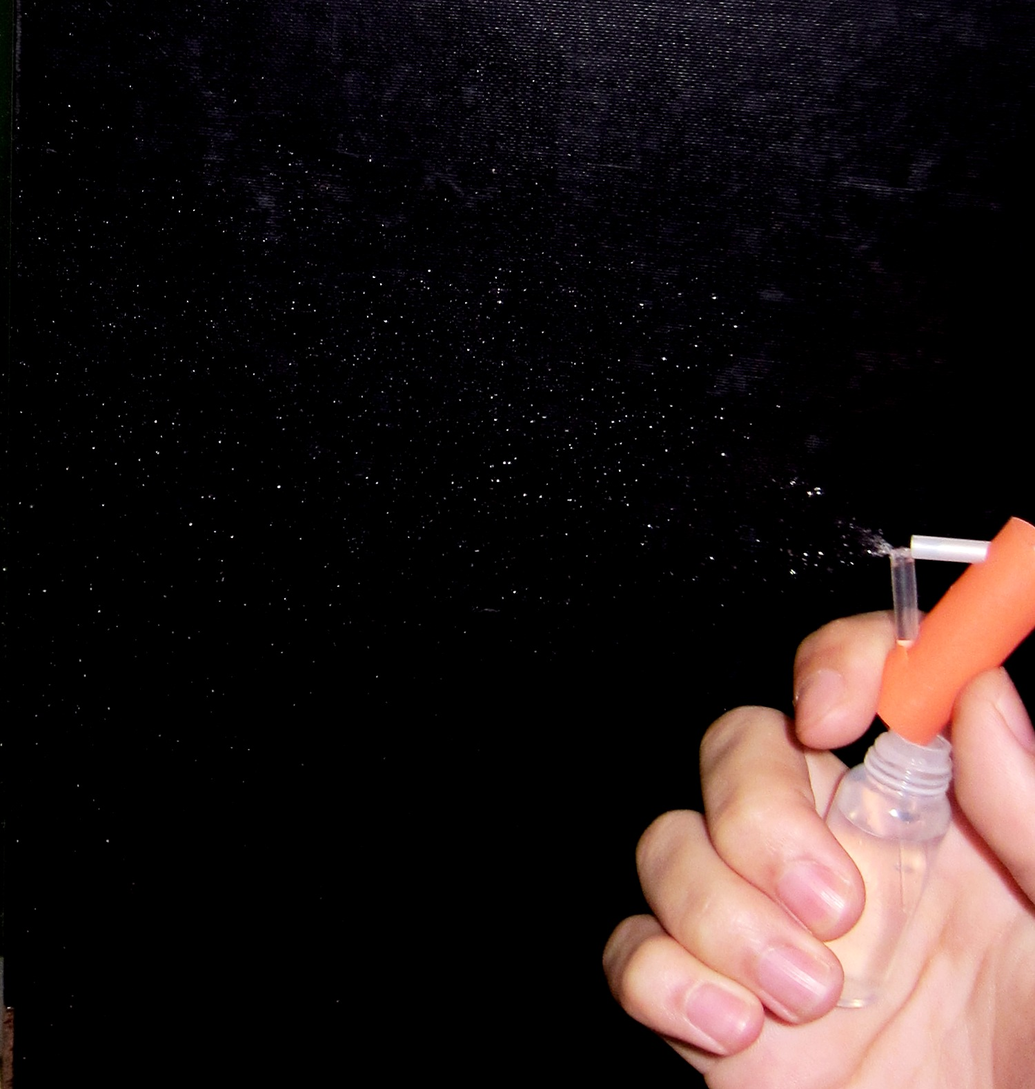 simple airbrush functioning